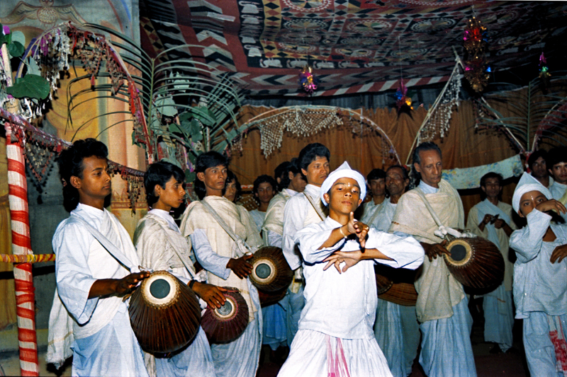 Celebrations at Majuli Island,Assam India